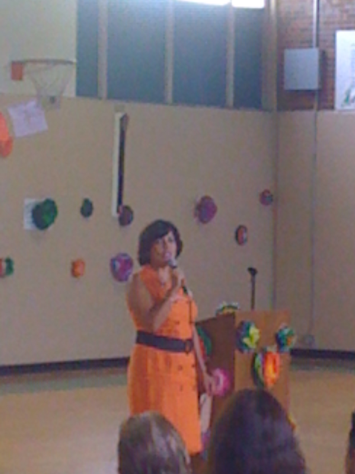 Luz Nunez Flores, the Mayor of San Miguel de Allende (a city in the state of Guanajuato, Mexico) addresses an assembly at Dogan Middle School in Tyler, Texas (US), during a Cinco de Mayo celebration.